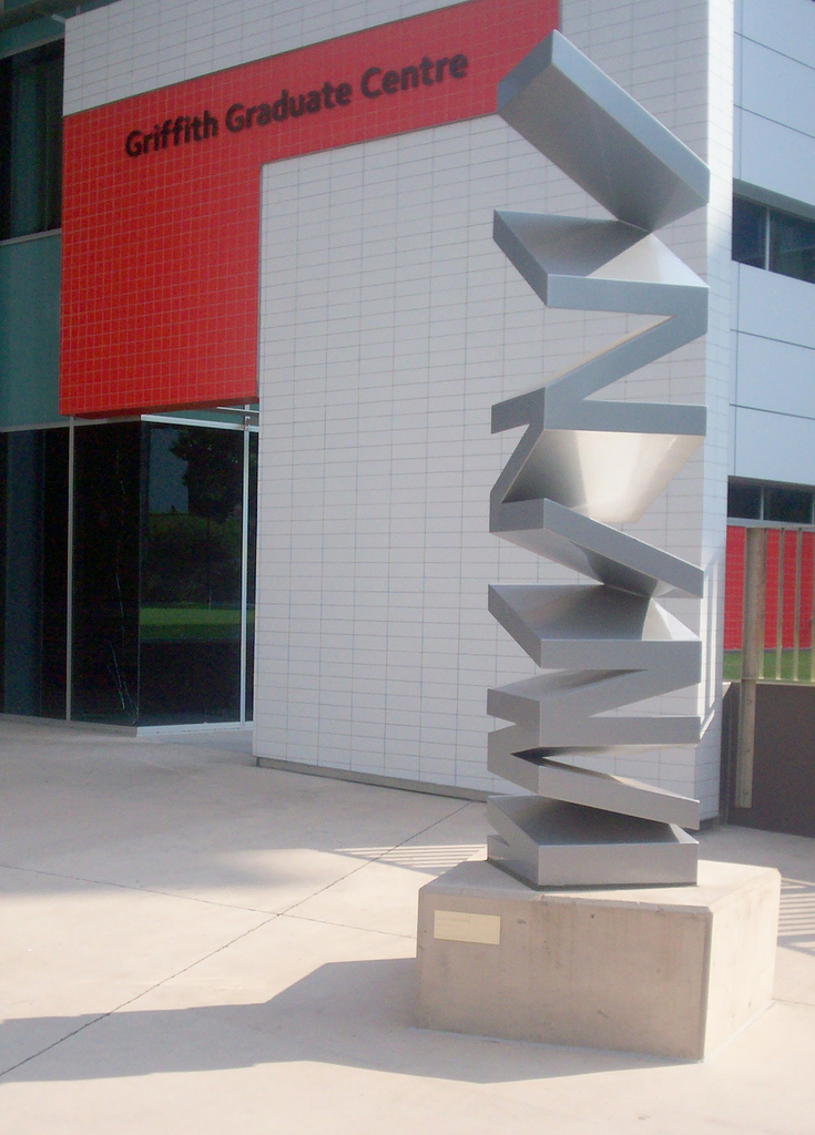 One of the buildings of the Griffith University in Brisbane, Australia. Sculpture is The Witness Box by Daniel Templeman.